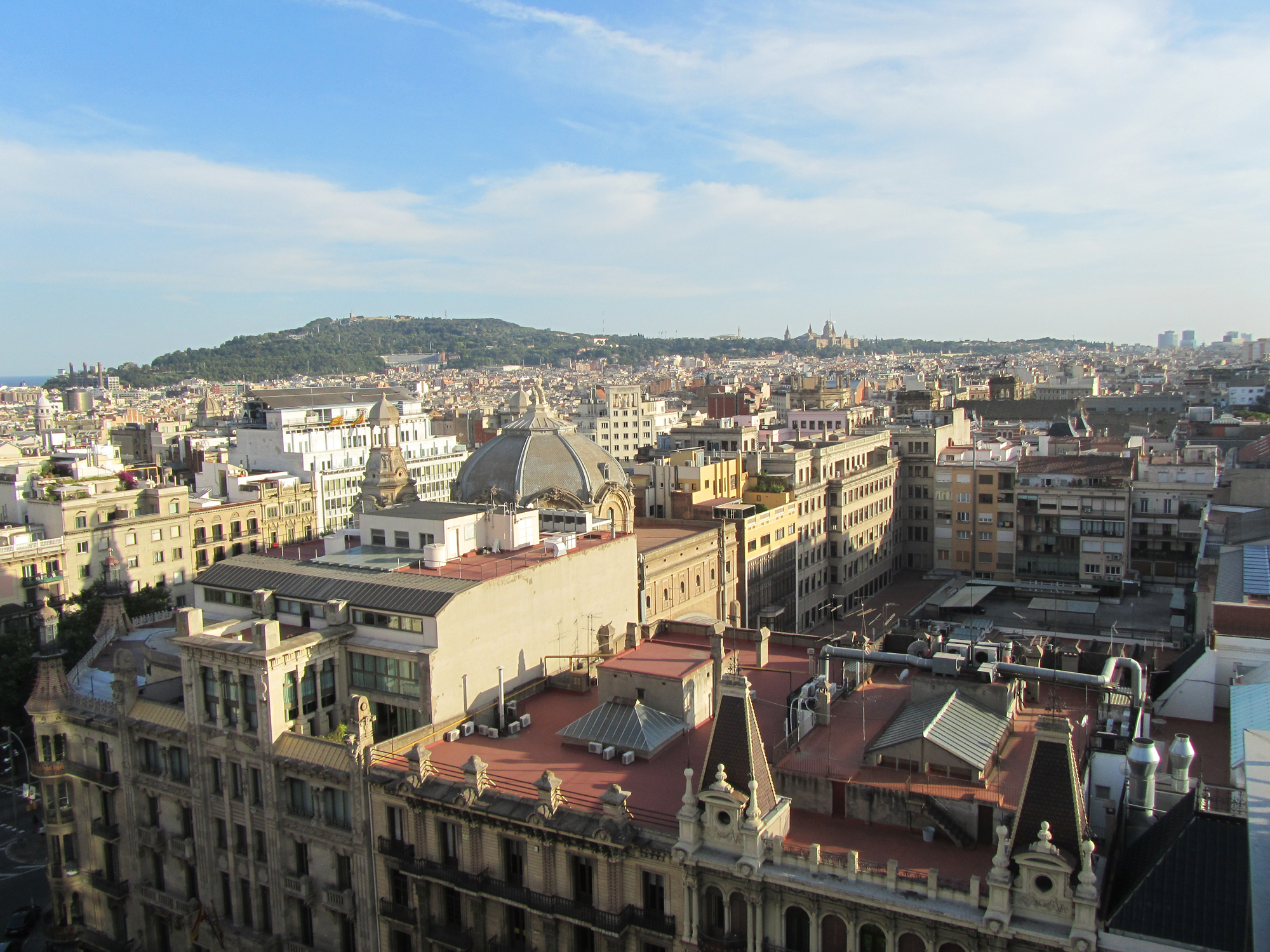 View over the rooftops from NH Calderon hotel on Rambla de Catalunya in Barcelona